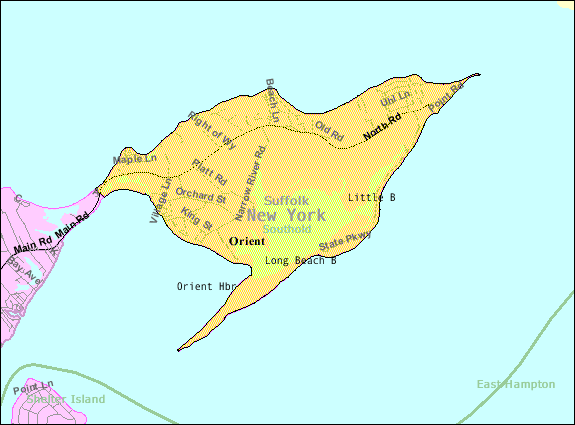 U.S. Census 2000 reference map for Orient